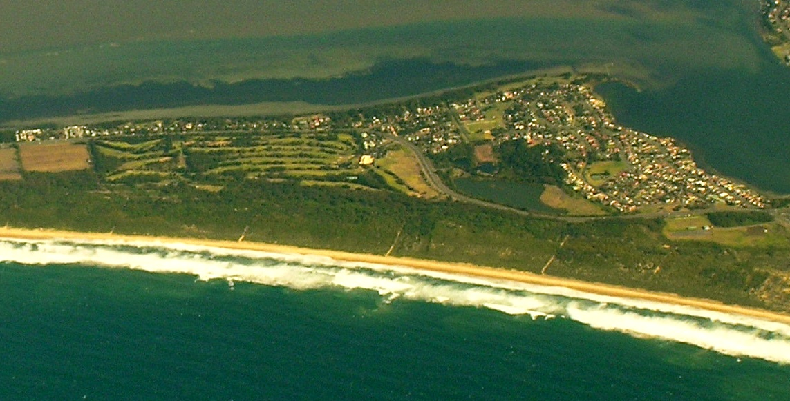 Aerial photo of Primbee near Wollongong